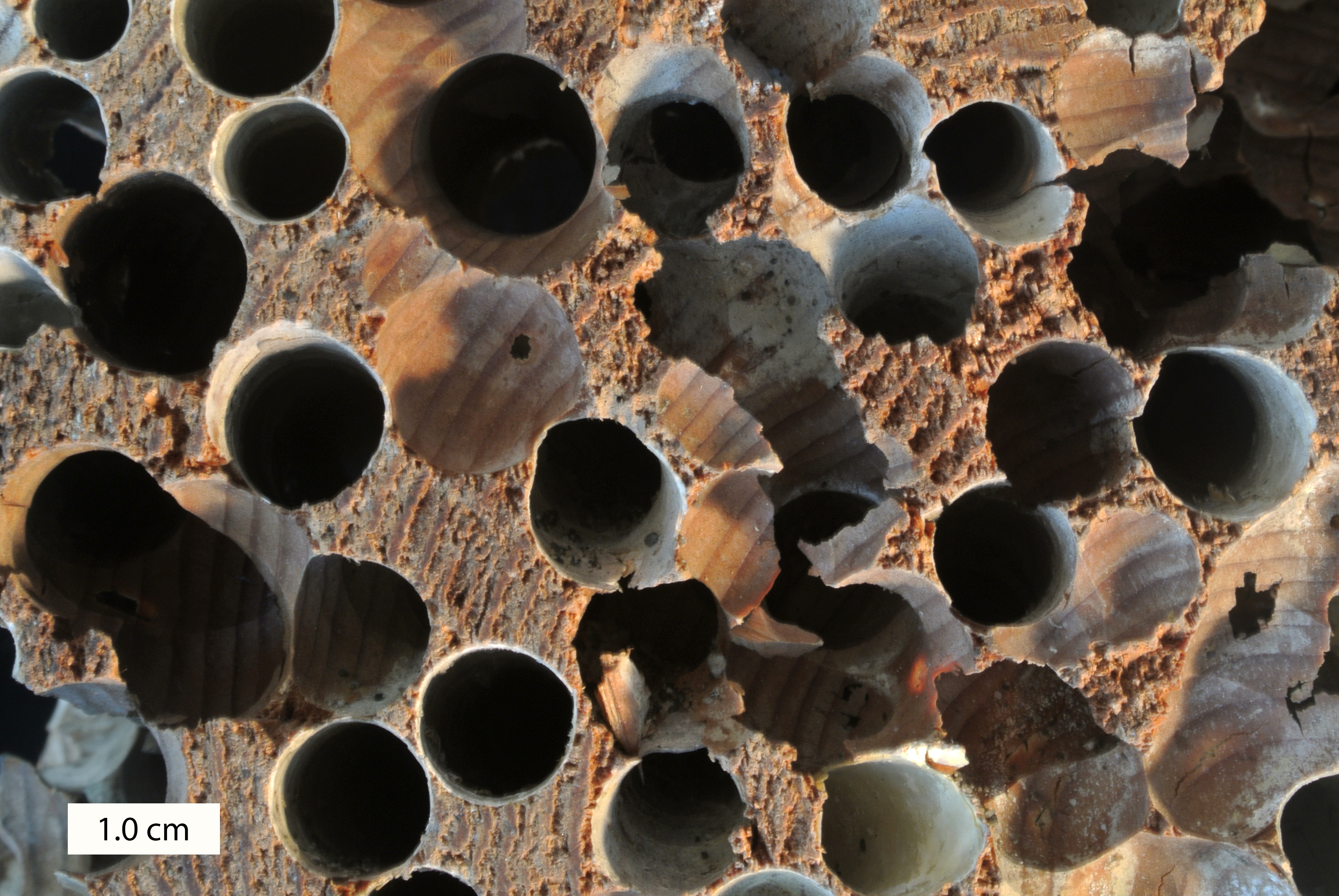 Teredolites; an ichnogenus formed by boring bivalves in wood.